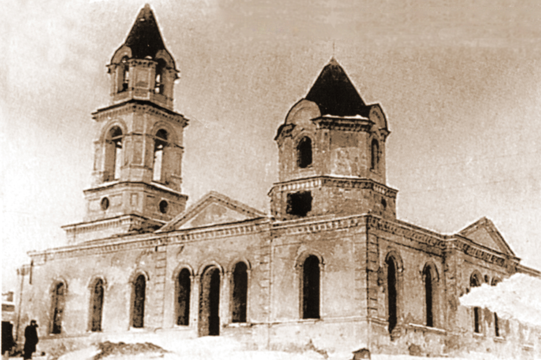 St. George church in Orel after liberating city in 1943